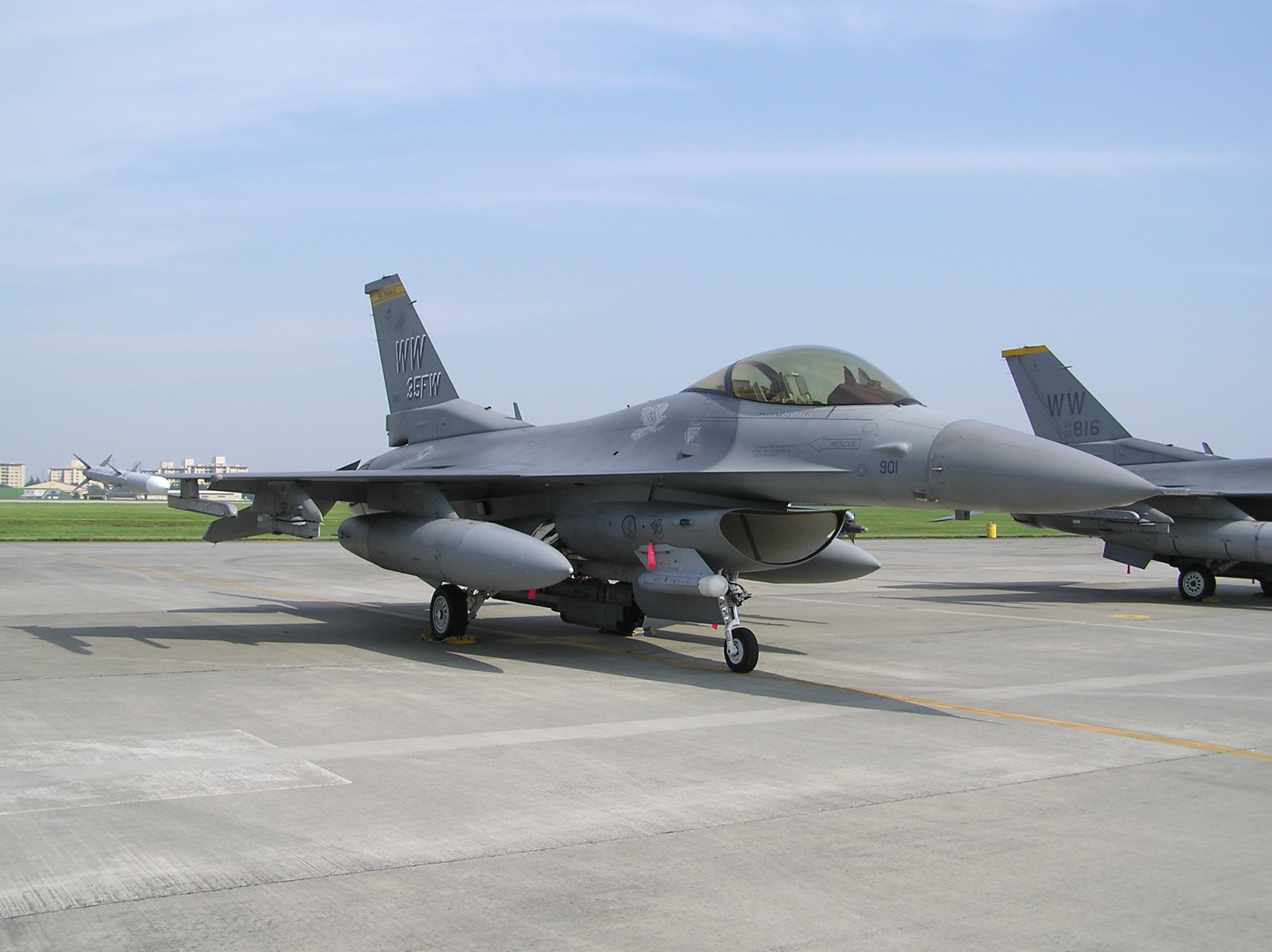 U.S. Air Force F-16 Fighting Falcon